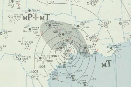 Weather map of the Gulf Coast of the United States on September 24, 1941 featuring a hurricane